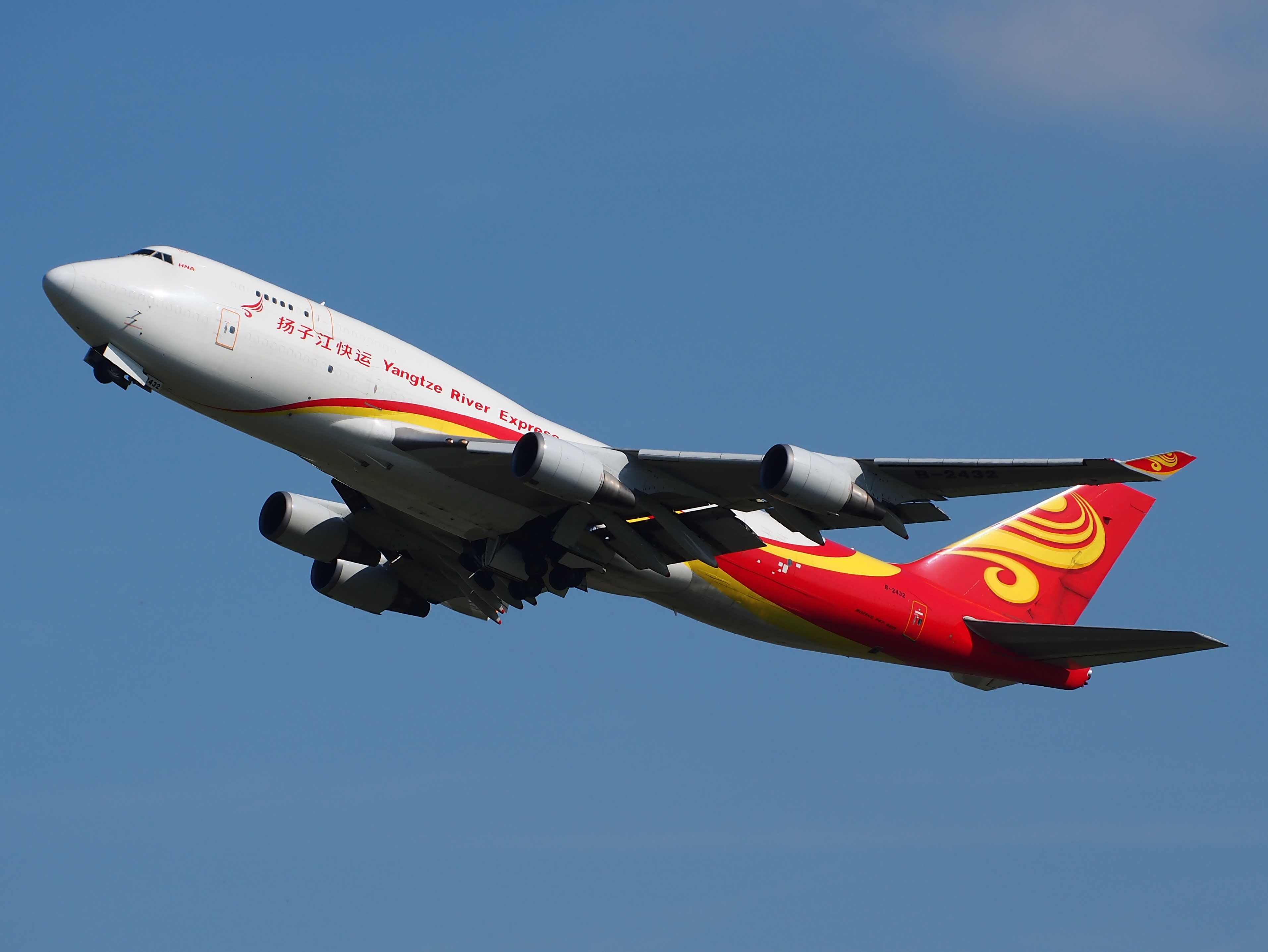 Photographed at Schiphol (AMS - EHAM), The Netherlands.